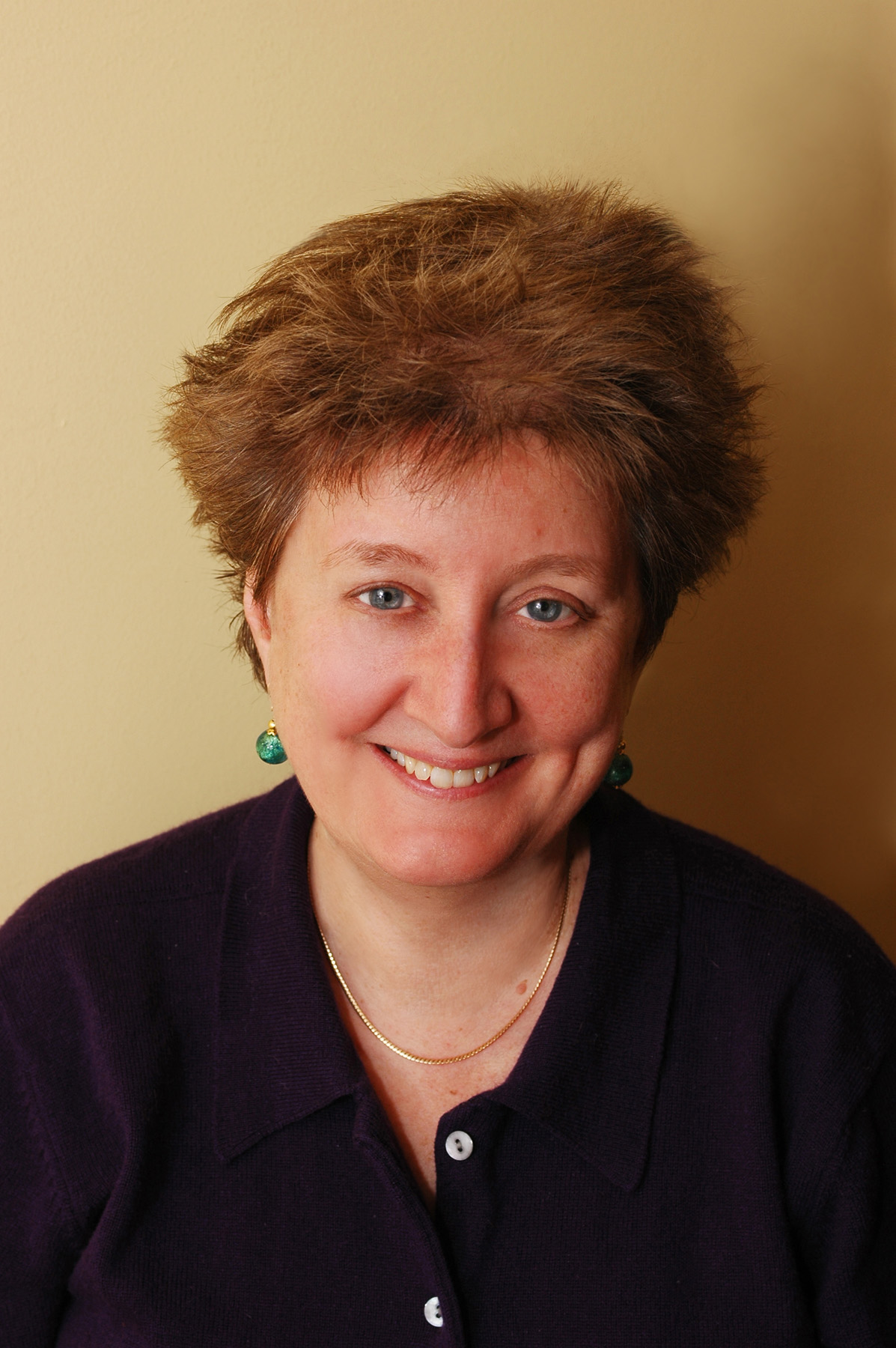 Author Katha Pollitt. Photo by Christina Pabst.